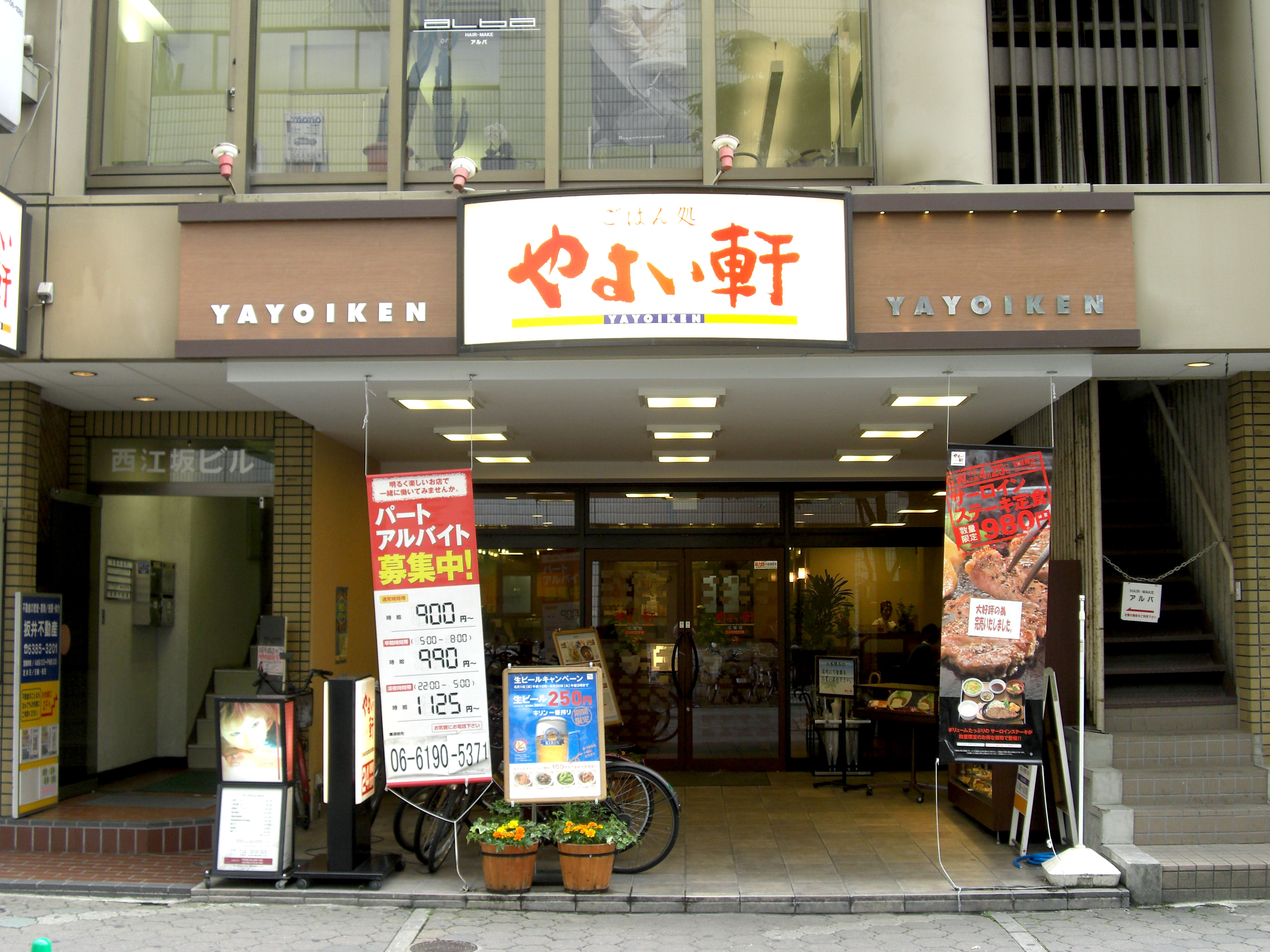 Yayoiken Esaka, Toyotsucho Suita-City Osaka Japan.